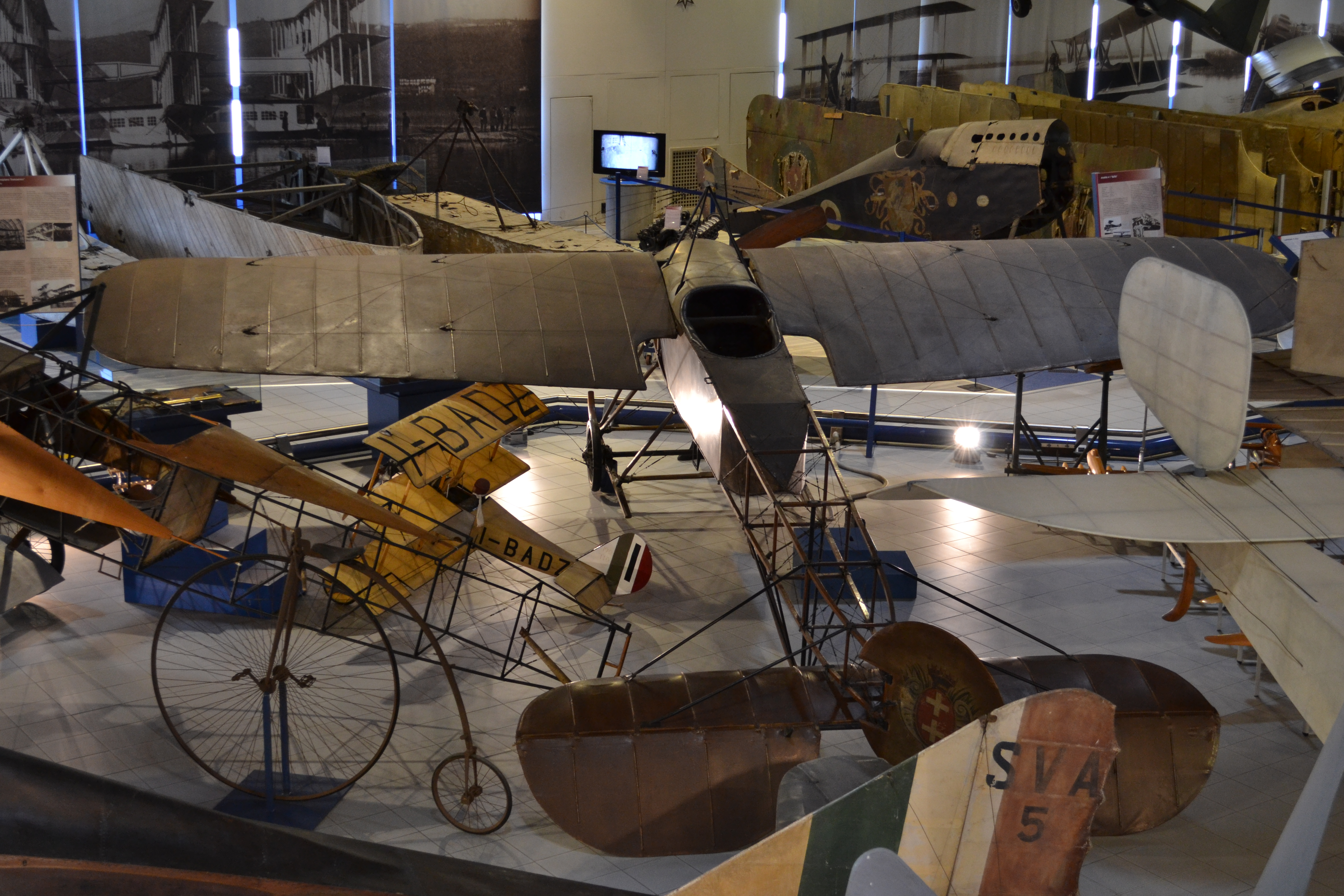 The Caproni Ca.9 pioneer aircraft on display at the museo dell'aeronautica Gianni Caproni.